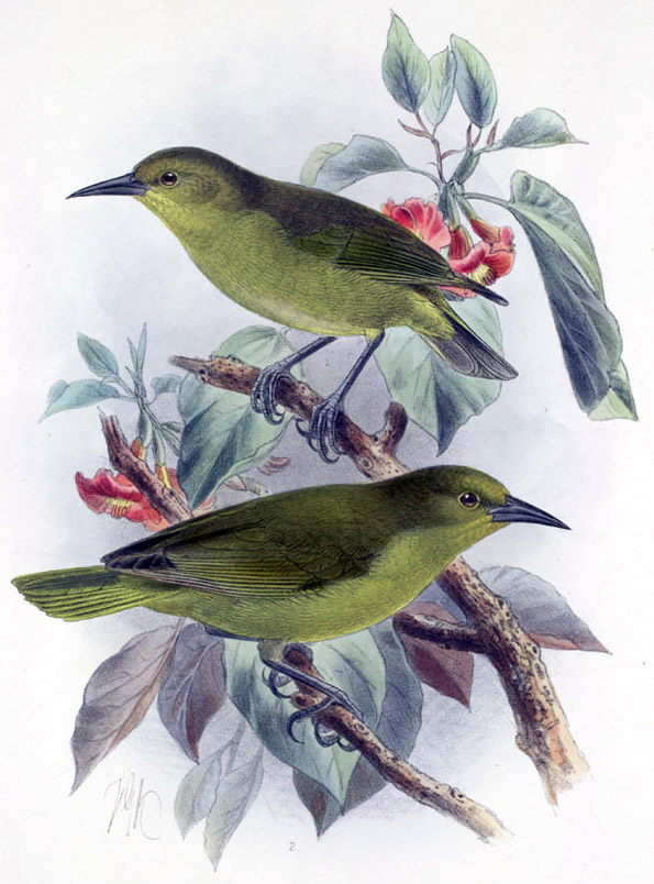 Illustration showing Viridonia sagittirostris which is now a synonym of the Greater ʻAmakihi (Hemignathus sagittirostris) from Avifauna of Laysan By Lionel Walter Rothschild, 2nd Baron Rothschild (8 February 1868 – 27 August 1937) by John Gerrard Keulemans (1842-1912) (Dutch bird illustrator), which was issued from 1893--1900.